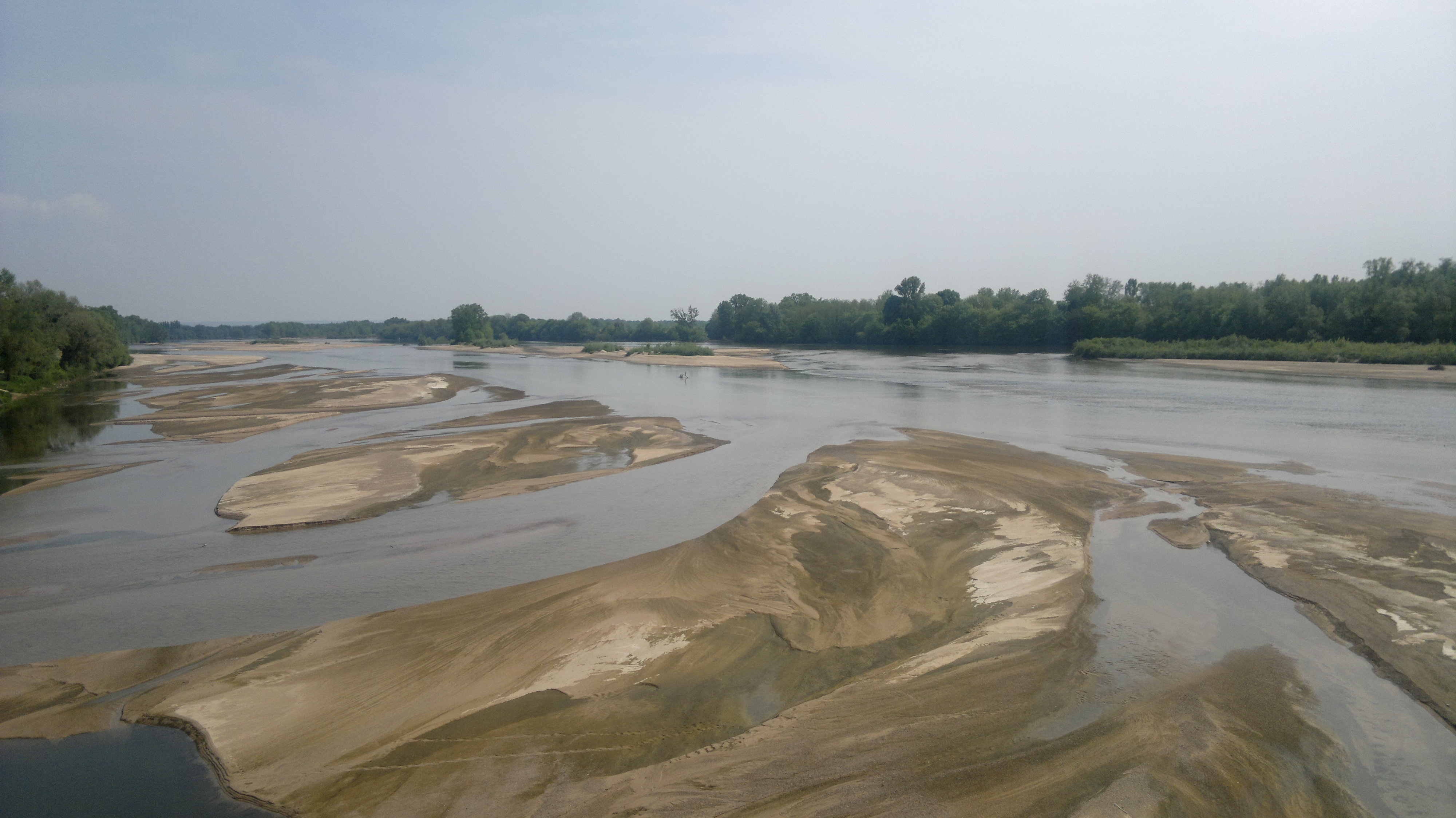 Loire at Pouilly-sur-Loire, Nièvre, France